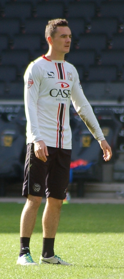 Dele Alli and Shaun Williams